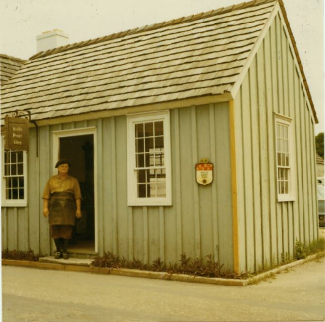 A photo of the Wells Print Shop, operated by the Historic St. Augustine Preservation Board, as it appeared in 1971.